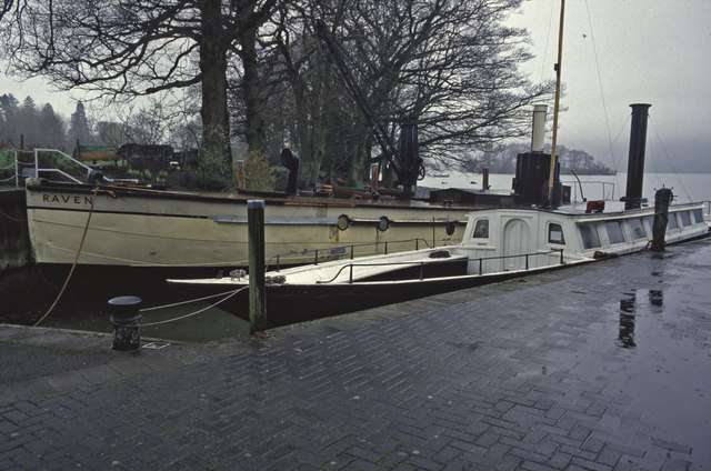 Lake Windermere on a rainy day. Seen from alongside the now closed Windermere Steamboat Museum. A completely rebuilt attraction known as Windermere Jetty is due to open in 2017. The further vessel is a rare steam cargo vessel - Raven.